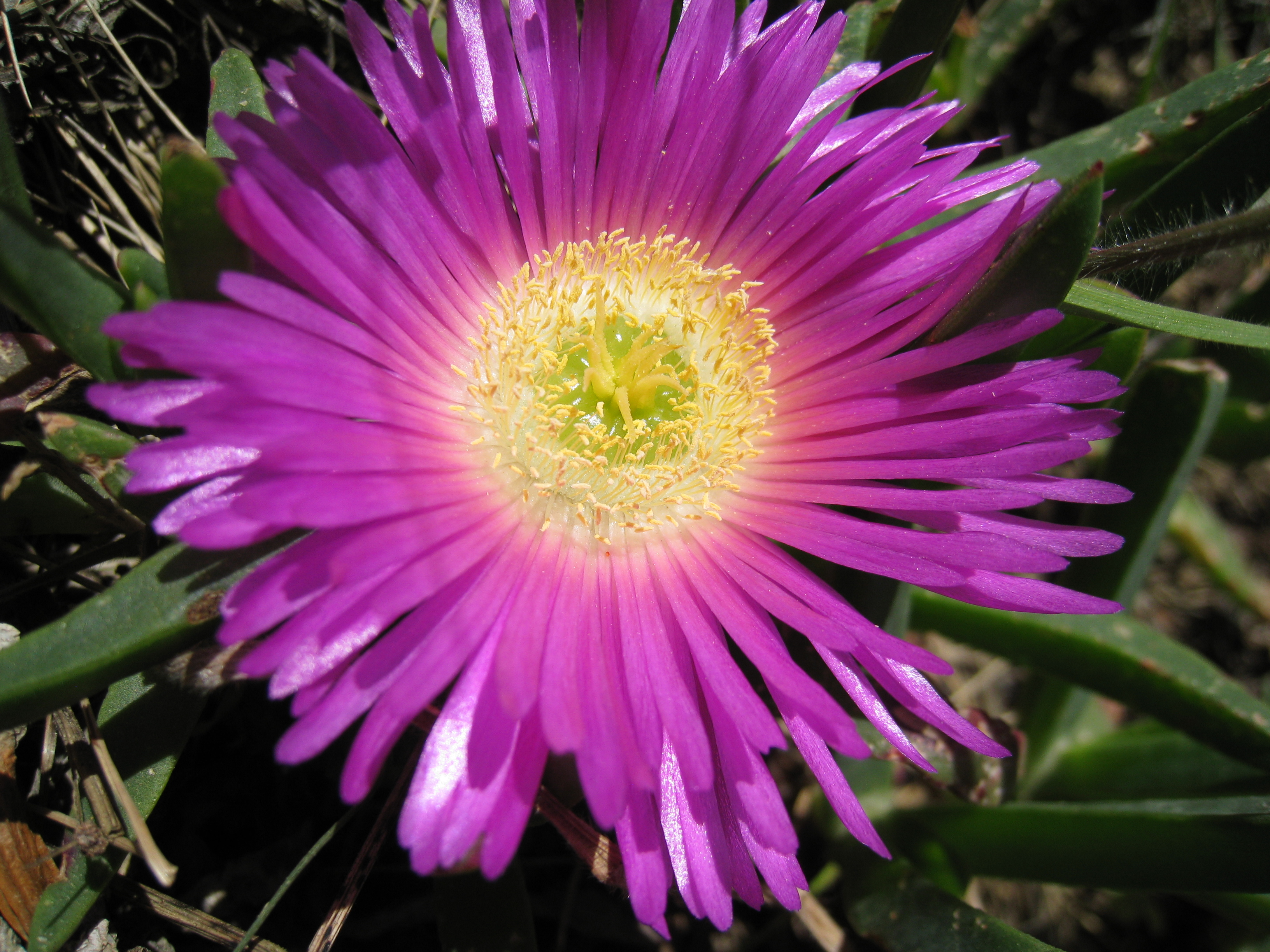 Pigaface, Carpobrotus rossii. Bruny Island, TAS, Australia, November 2010.